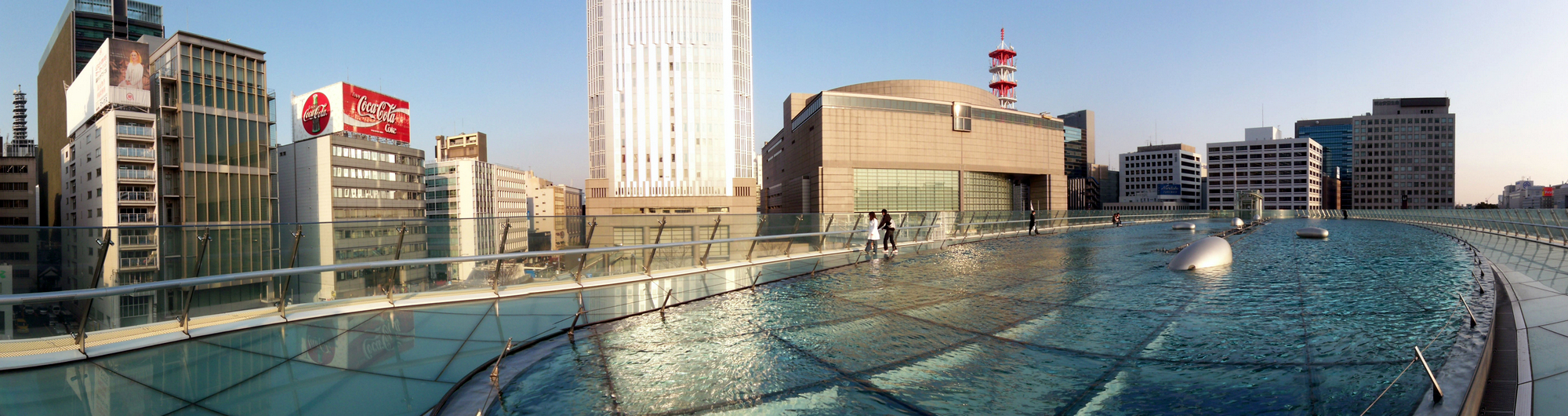 View from the Top of "Oasis 21"